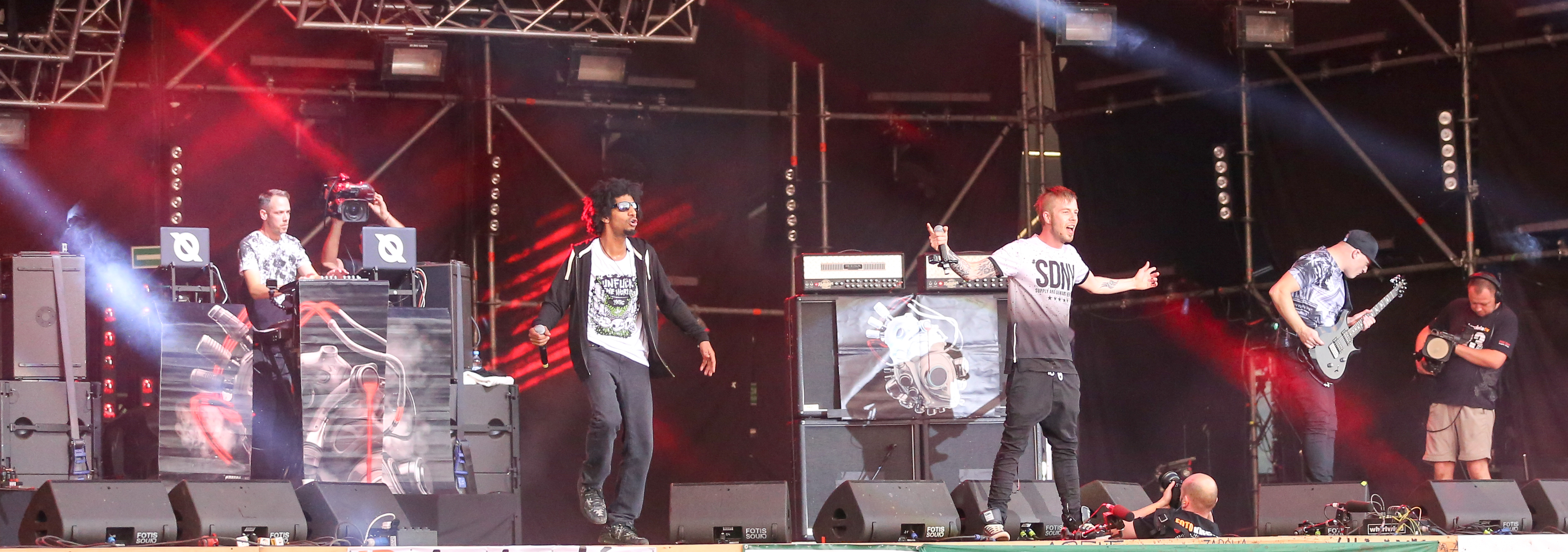 Przystanek Woodstock in 2017.